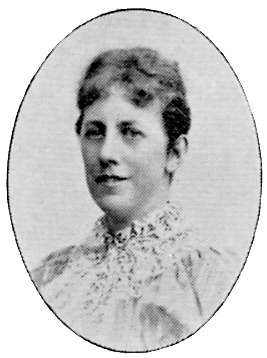 Image scanned from the book "Svenskt Porträttgalleri XX - Arkitekter, Bildhuggare, Målare m.fl. " ("Swedish Portrait Gallery XX - Architects, Sculptors, Painters, ") published 1901